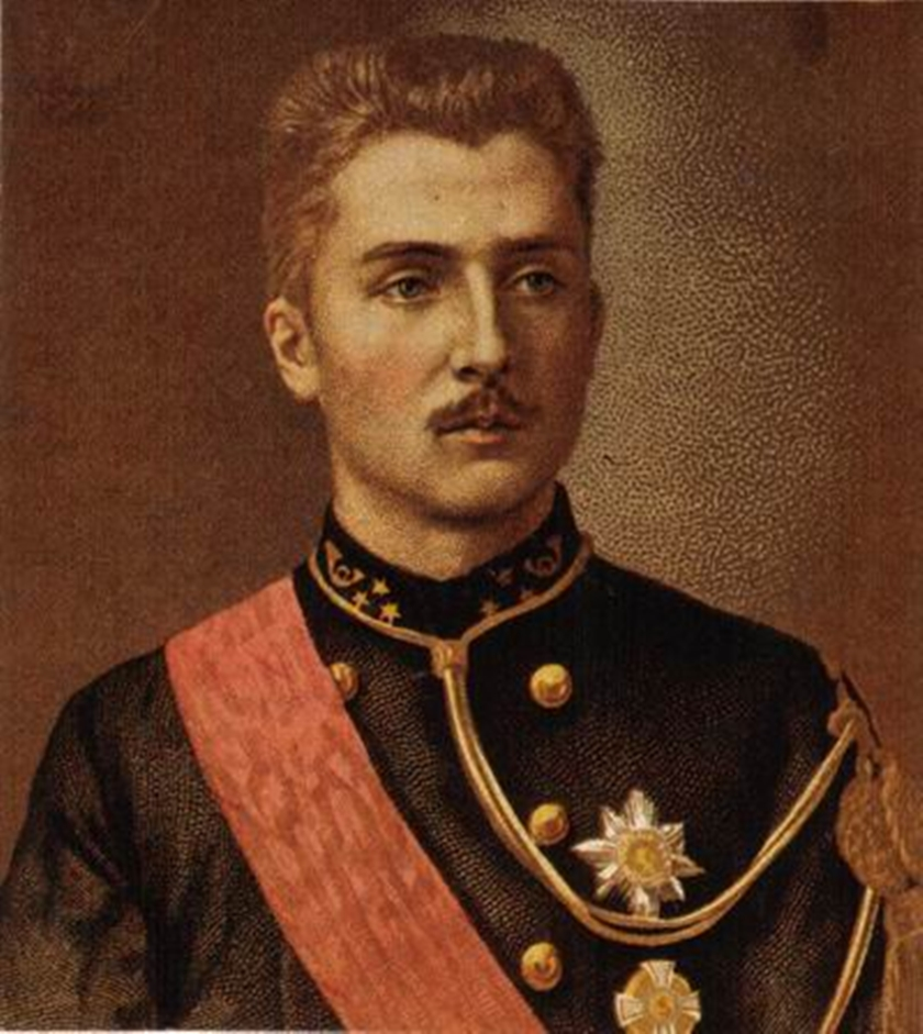 Prince Baudouin of Belgium (3 June 1869- 23 January 1891) was the first child and eldest son of Prince Philippe, Count of Flanders and his wife, Princess Marie of Hohenzollern-Sigmaringen.